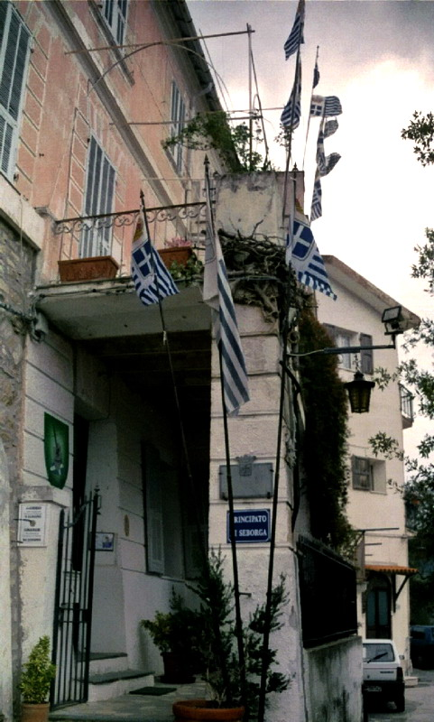 Palace of the Seborga government, photographed by Rolf Palmberg